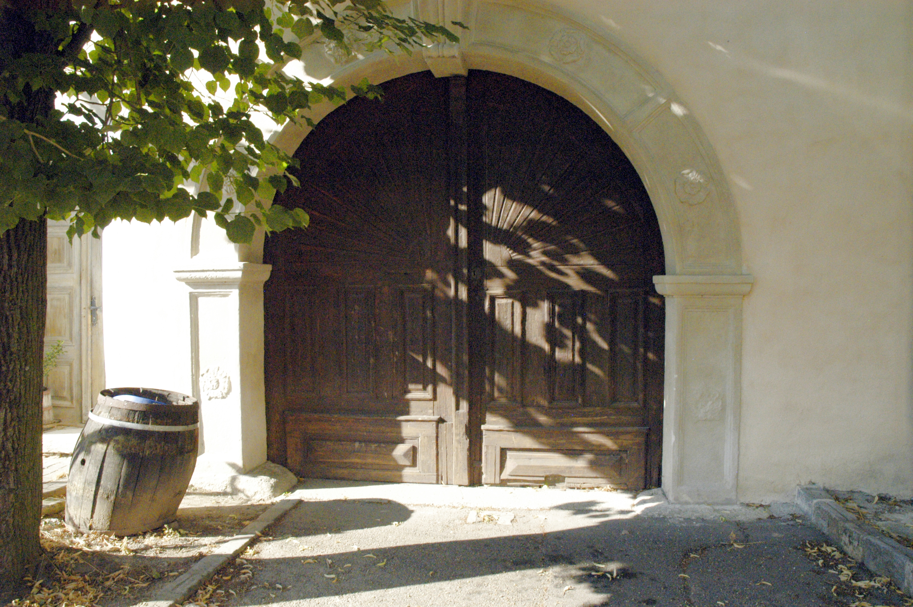 Sitzendorf: Portal/entrance of the "Herrschaftskeller"